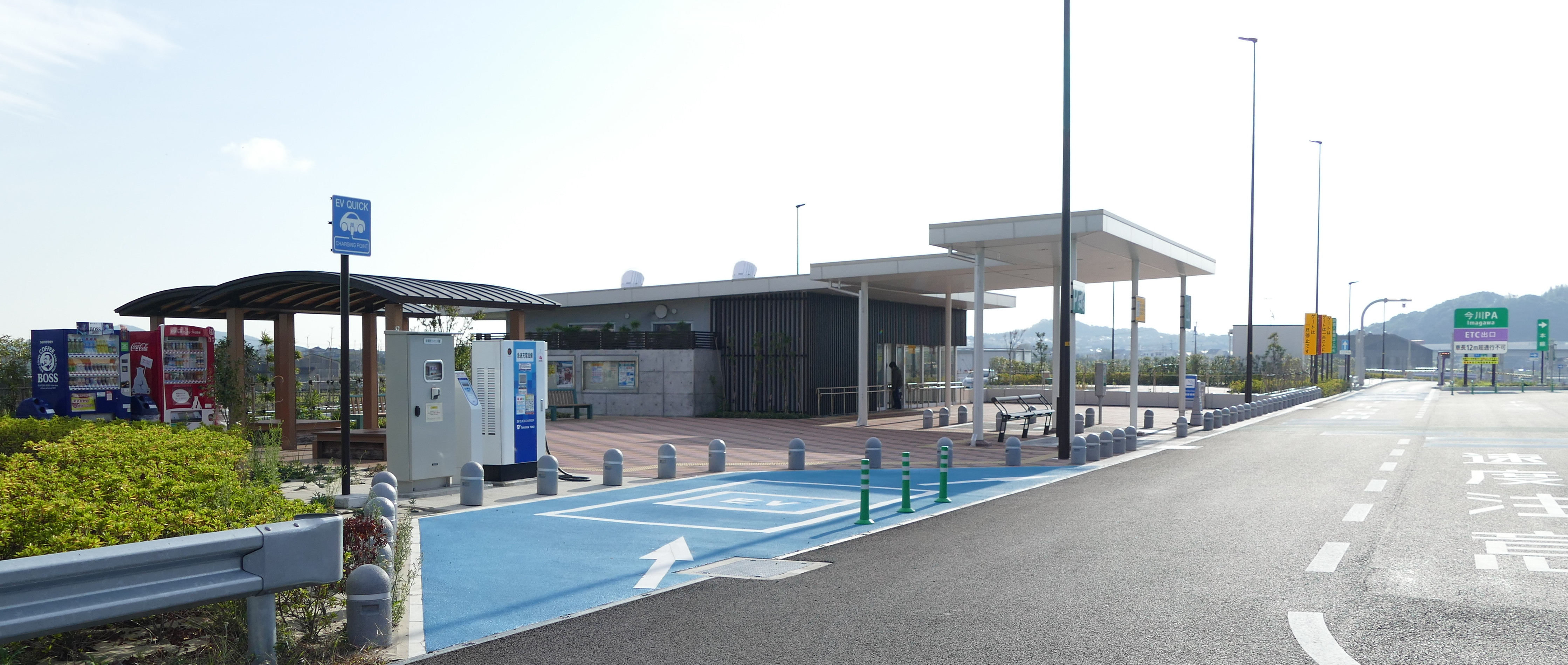 Imagawa Parking Area kudari,Fukuoka prefecture,Japan